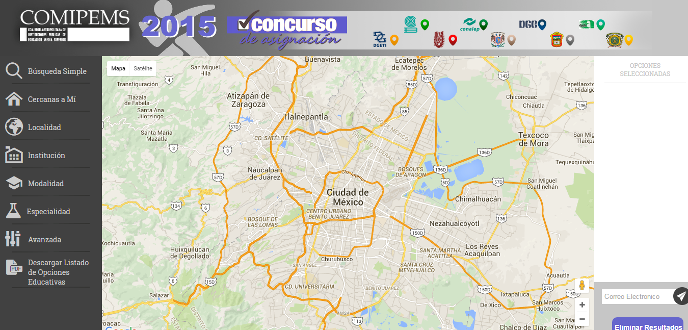 Sesotho: Página web de Comipems 2015.